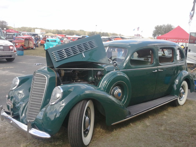 1937 Lincoln Model K limousine Zephyrhills Winter Autofest 2013 at Festival Park 2738 Gall Blvd. Zephyrhills, Florida 33541